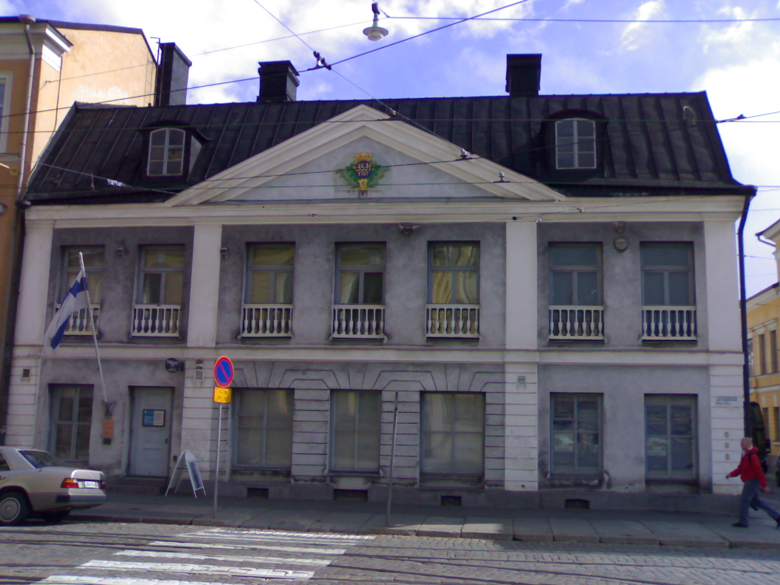 Sederholm House in Helsinki